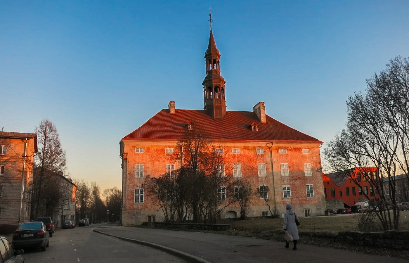 Backside of Narva Town Hall (Estonia).